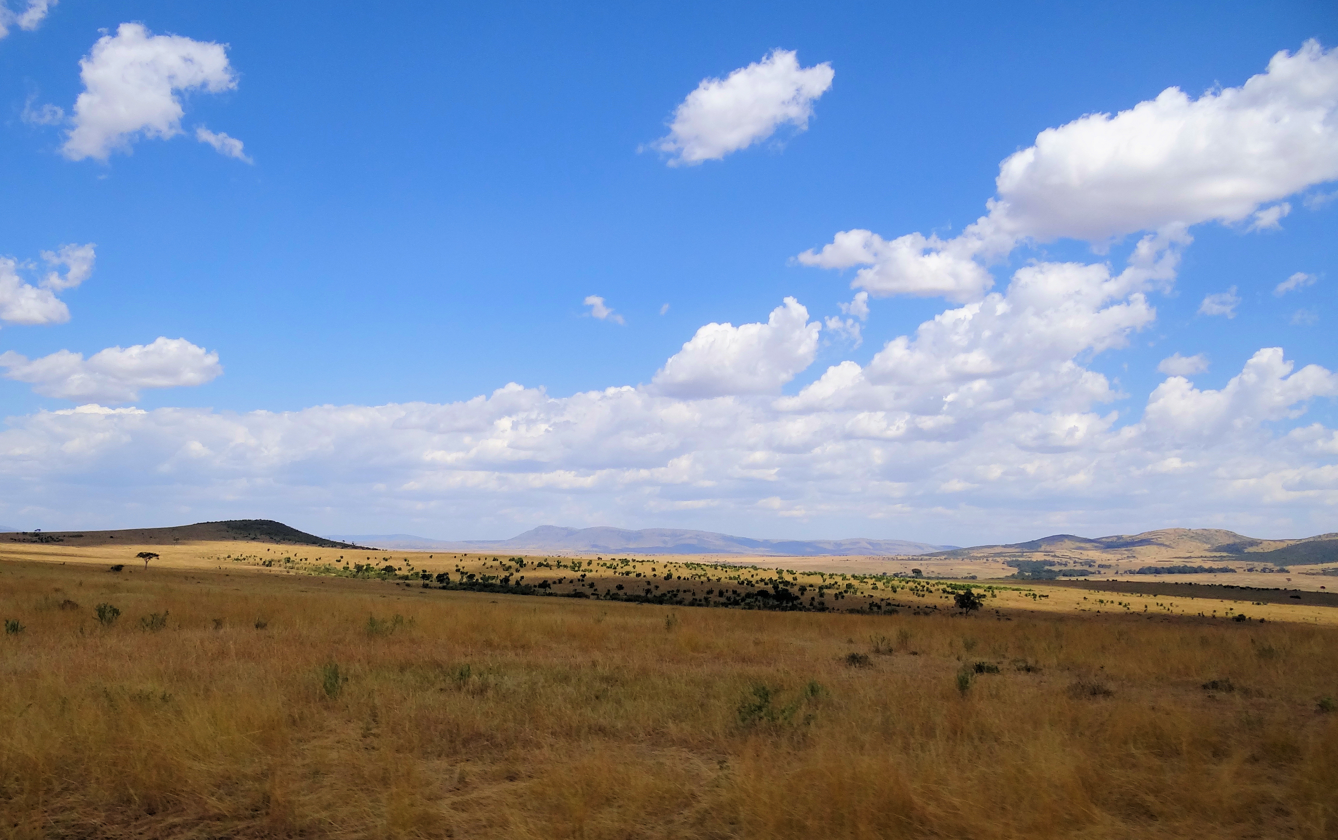 A landscape typical of the Maasai Mara; wide plains dotted with vegetation and hills here and there.